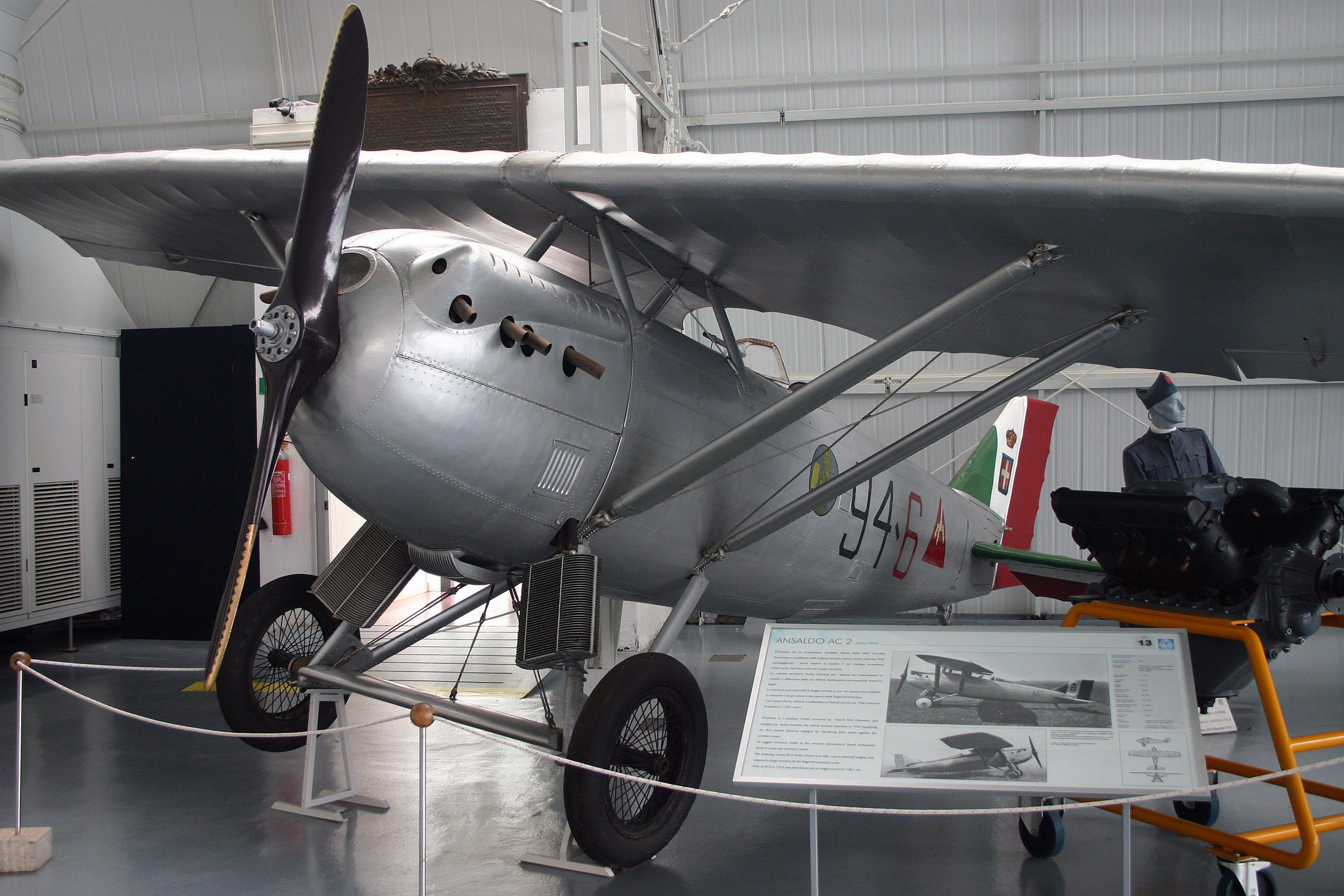 Displayed in hangar TROSTER (behind lots of clutter). Serial MM1208 not actually carried.